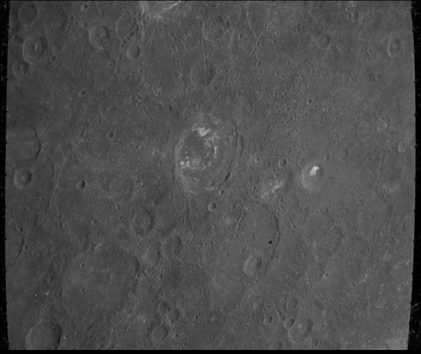 Image Number: 0000215GMT: 1974:088:22:58:50Start Time: 1974-03-29T22:58:50.239ZLatitude: -15.2° to 5.51°Longitude: 136.83° to 156.48°Resolution (meters per pixel): 731Incidence Angle: 47.72°Emission Angle: 38.26°Phase Angle: 77.47°